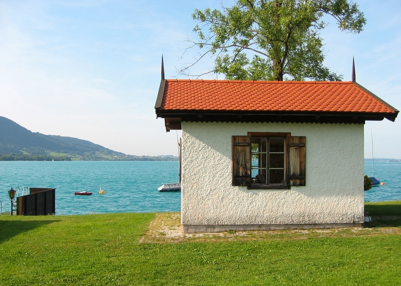 Gustav Mahler's composer's lodge in Steinbach / Attersee